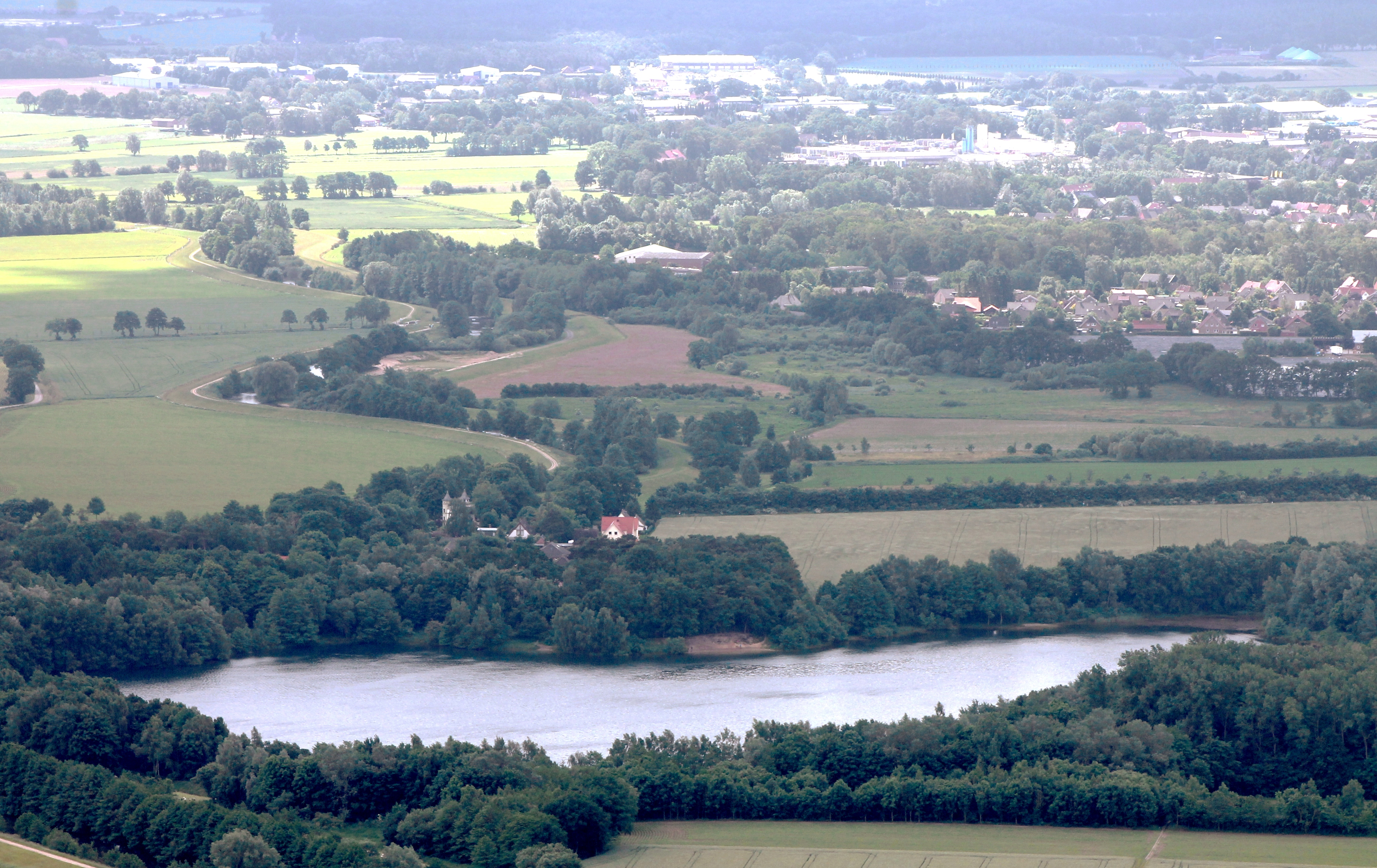 Aerial photograph of Wardenburg, Lower Saxony, with the Tilly lake in the foreground, photographed in south-western direction.